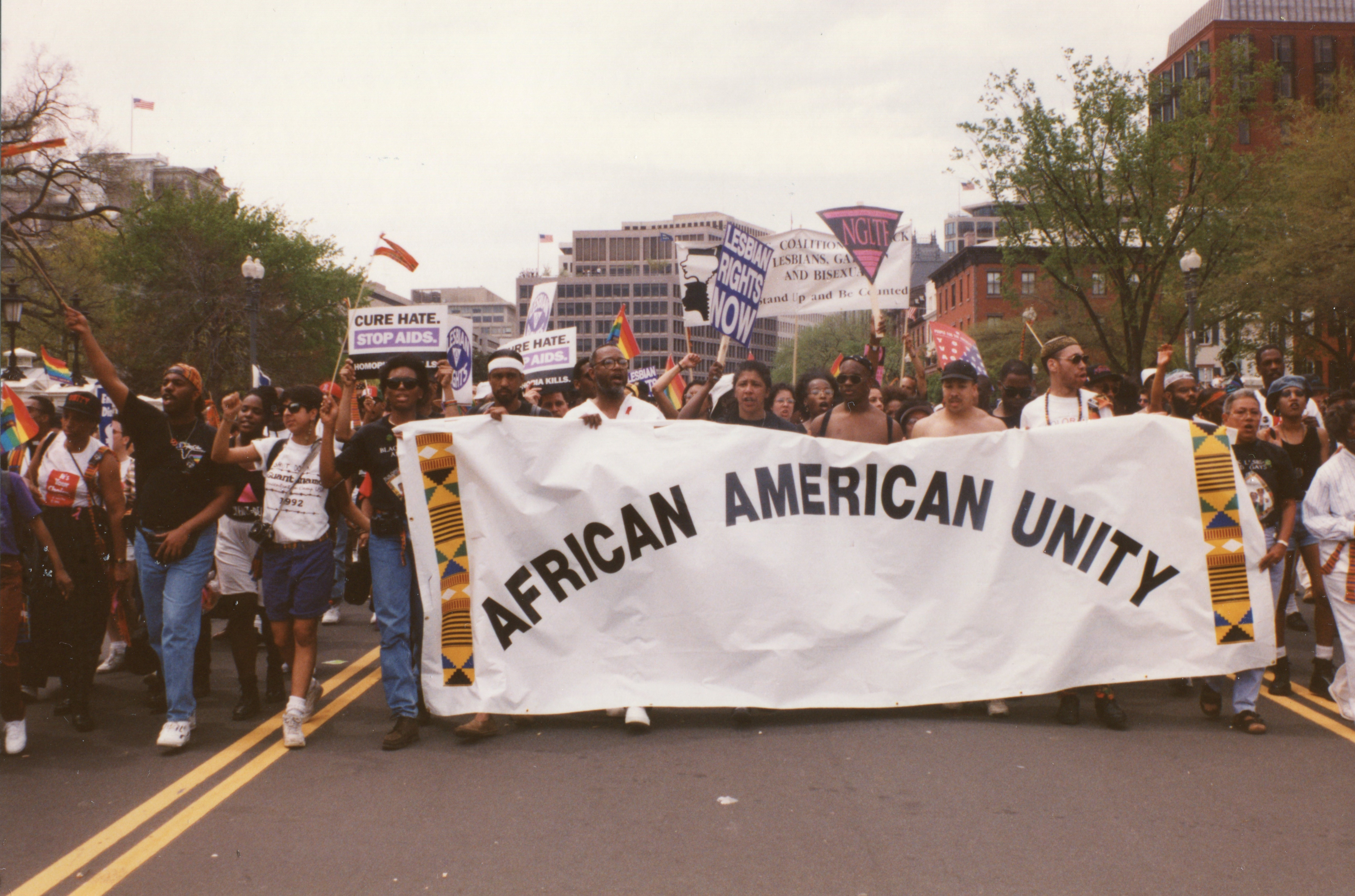 National March on Washington for Lesbian, Gay, and Bi Equal Rights and Liberation in front of the White House at 1600 Pennsylvania Avenue, NW, Washington DC on Sunday afternoon, 25 April 1993 by Elvert Barnes Photography 25 April 1993 LGBT March On Washington at Wikipedia at Elvert Barnes MARRIAGE EQUALITY ongoing project at